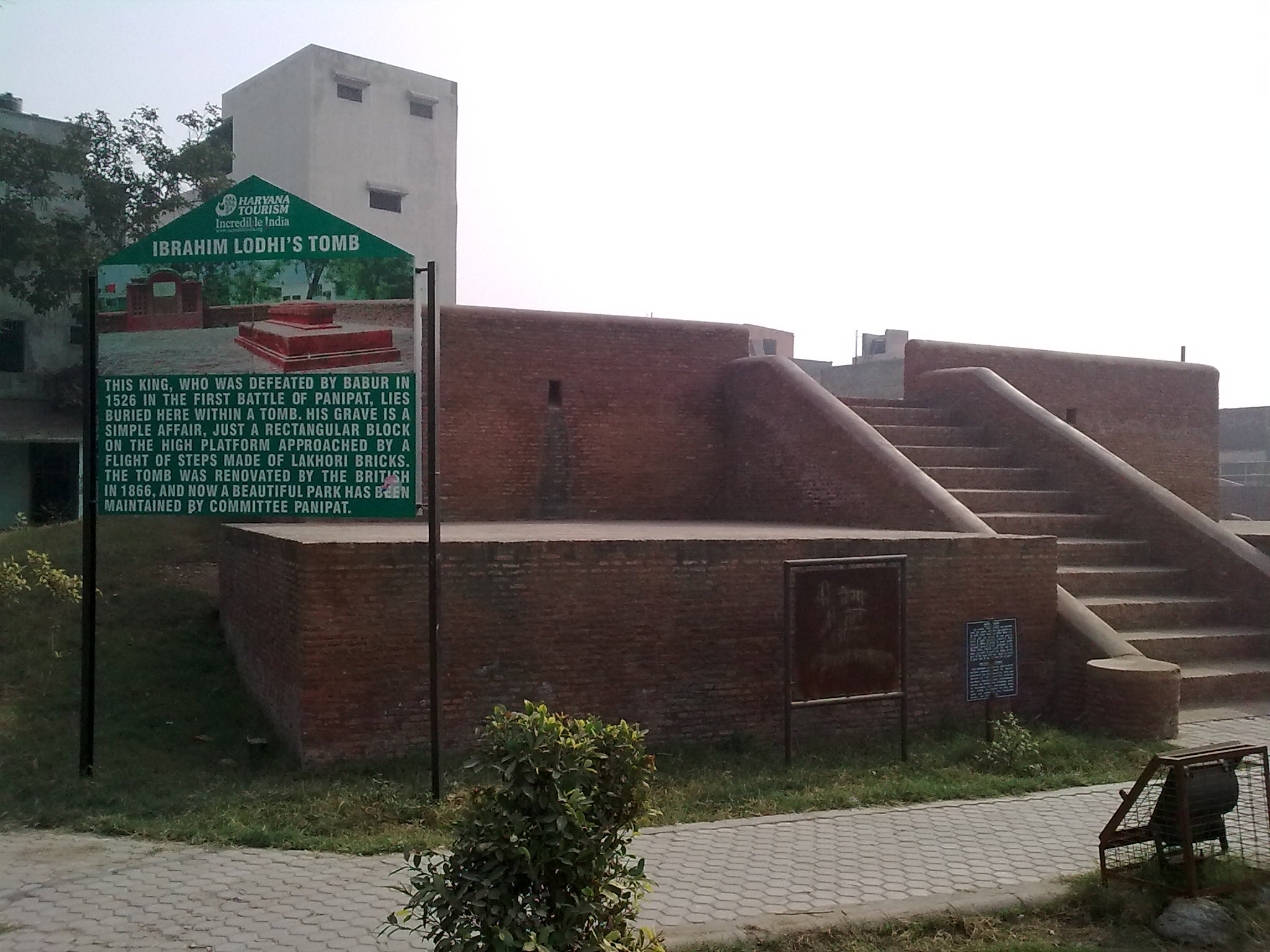 The tomb of Ibrahim Lodhi is just a rectangular block on the high platform made of Lakhori Bricks. The tomb was renovated by the British in 1866.